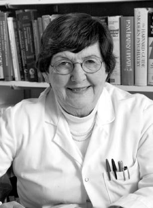 Headshot of Jimmie C. Holland, a founder of Psycho-oncology at Memorial Sloan Kettering Cancer Center.